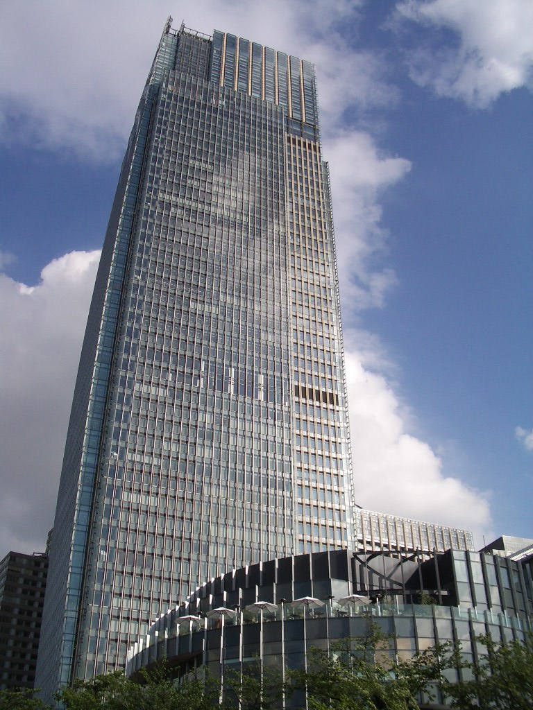 The Midtown Tower in Tokyo, Japan. It was the tallest building in Tokyo from 2007 until the completion of Toranomon Hills in 2014